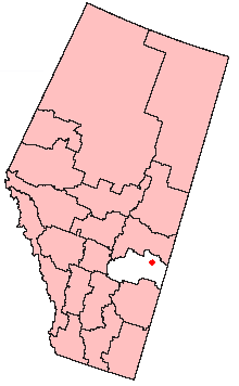 Map of Alberta, Canada highlighting the location of Wainwright in Division Nº 7. Image created by User:Cadillac derived from Image:Censusdivisions.PNG.